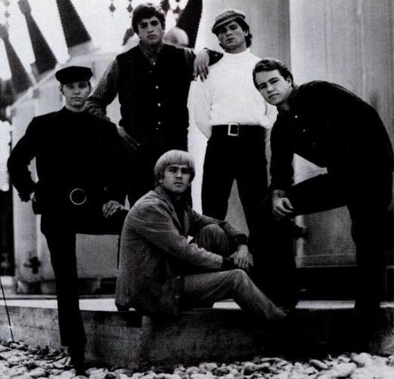 Trade ad for The Electric Prunes's single "I Had Too Much to Dream (Last Night)".To better adapt it to his respective Wikipedia article, the ad was cropped and cleaned in a graphics editing program. The original can be viewed at the source below.